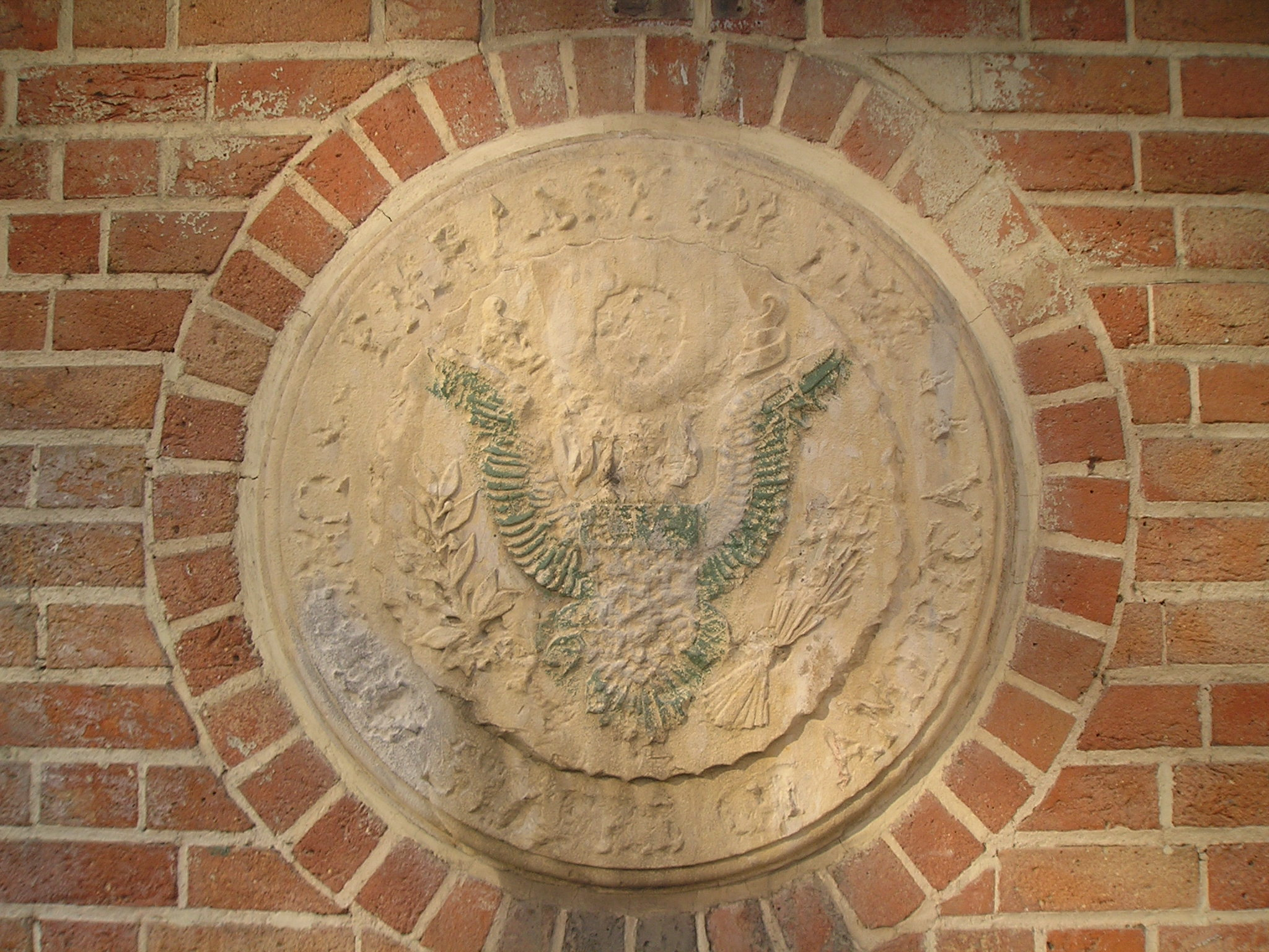 The former US embassy, Tehran, Iran, as it appeared in 2004